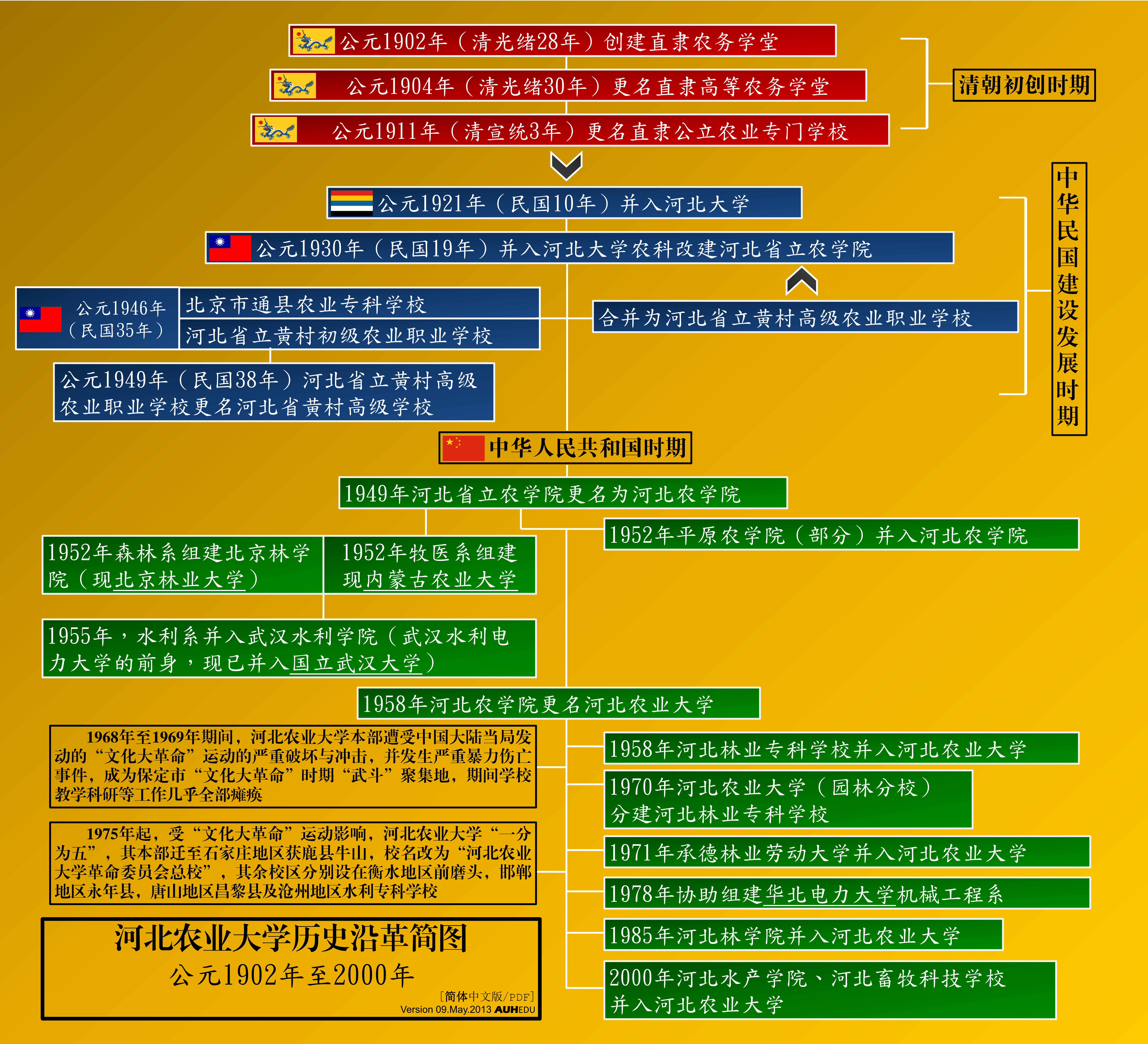 Agricultural University of Hebei Province,China History AD.1902-2000